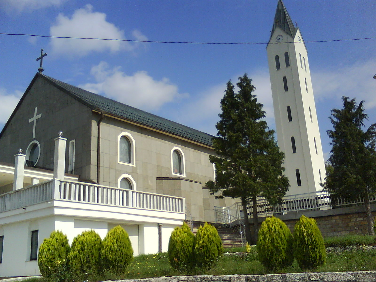 Roman Catholic church of St. Anthony in Šujica village, municipality of Tomislavgrad